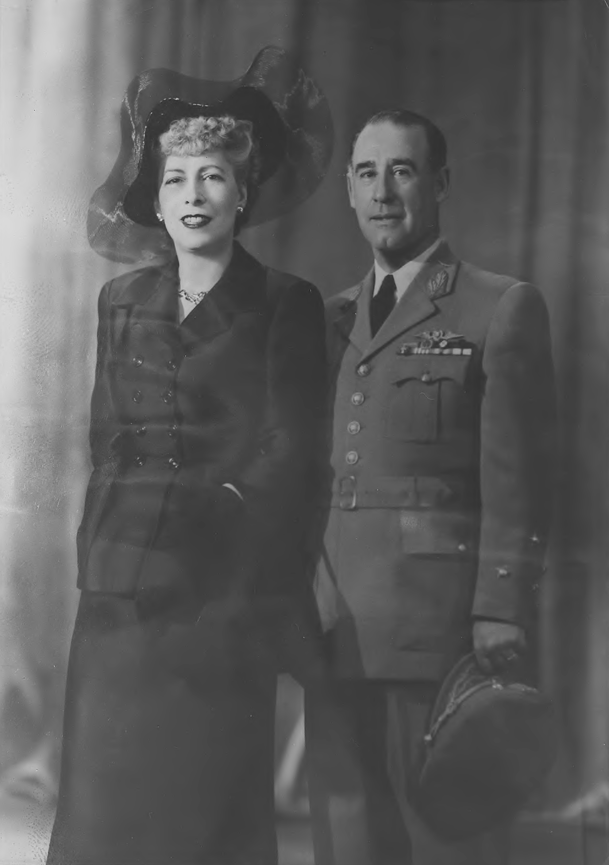 Francisco Craveiro Lopes, President of the Portuguese Republic, and his wife, Berta Craveiro Lopes.